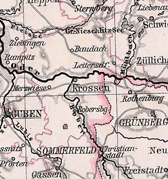 Detail from a map of Brandenburg.